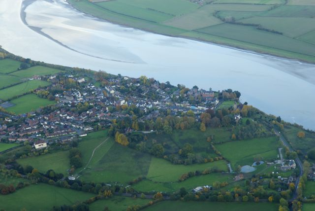 Newnham on Severn, Data from Geograph: Description: Aerial View ICBM: 51.803087268829, -2.4479378186202 Location: (about 0 km from) near to Newnham, Gloucestershire, Great Britain.